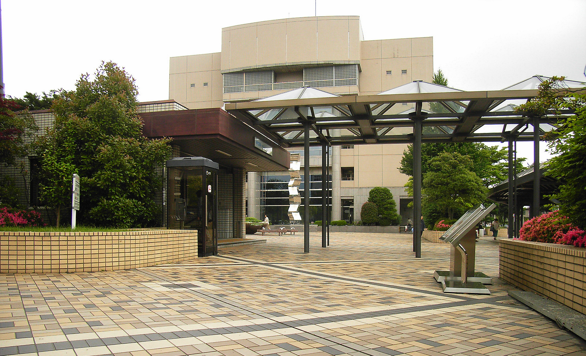 Nagamachiminami Station of the Sendai Subway. Sendai, Miyagi prefecture, Japan.